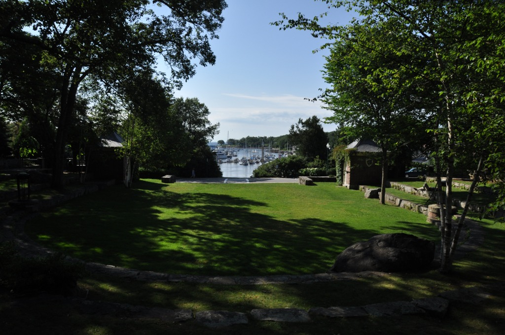 Camden Amphitheater and Public Library. Amphitheatre.